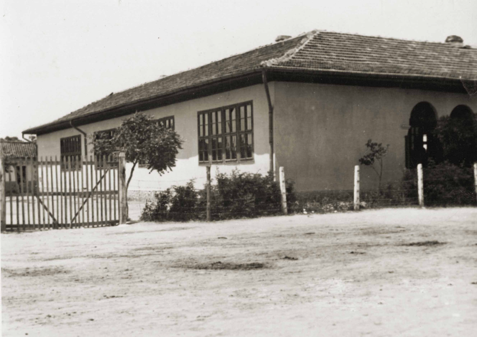 "Petar Parchevich" School, Sekirovo, Plovdiv Province - 1929